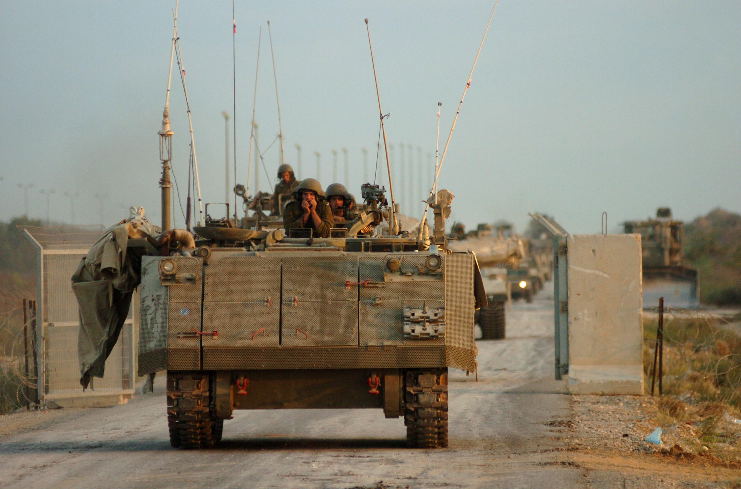 September 12, 2005. IDF forces exit the Gaza Strip as part of Operation Last Dawn, the final stage of the Gaza Disengagement, which occurred in the summer of 2005.